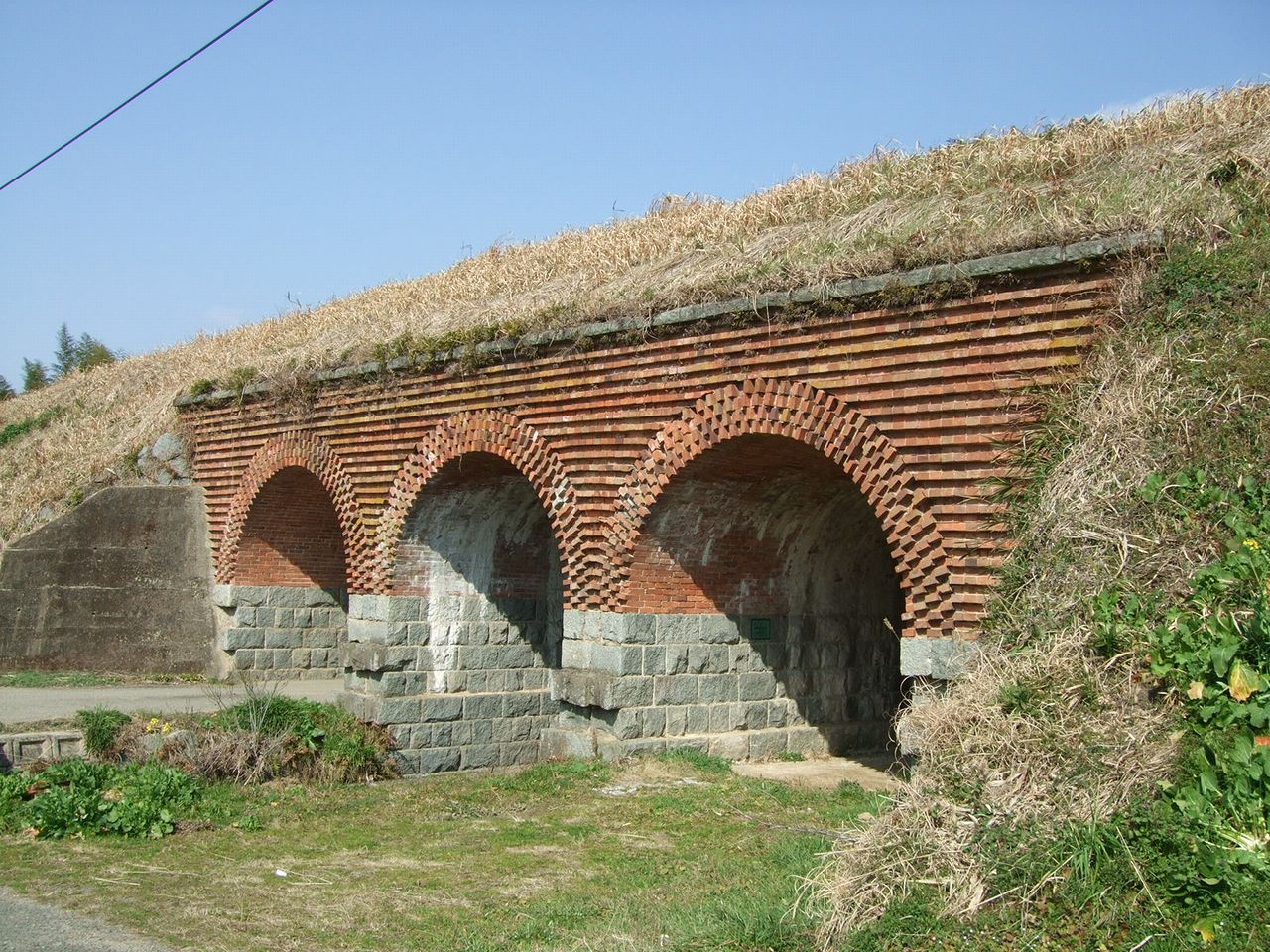 Heisei Chikuhō Railway Tagawa Line Uchida River Bridge(down side). Between Aka Station and Uchida Station, Aka Village, Fukuoka, Japan.